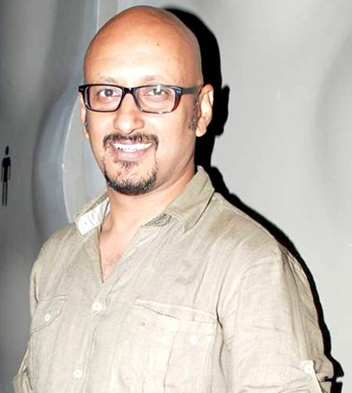 Shantunu moitra